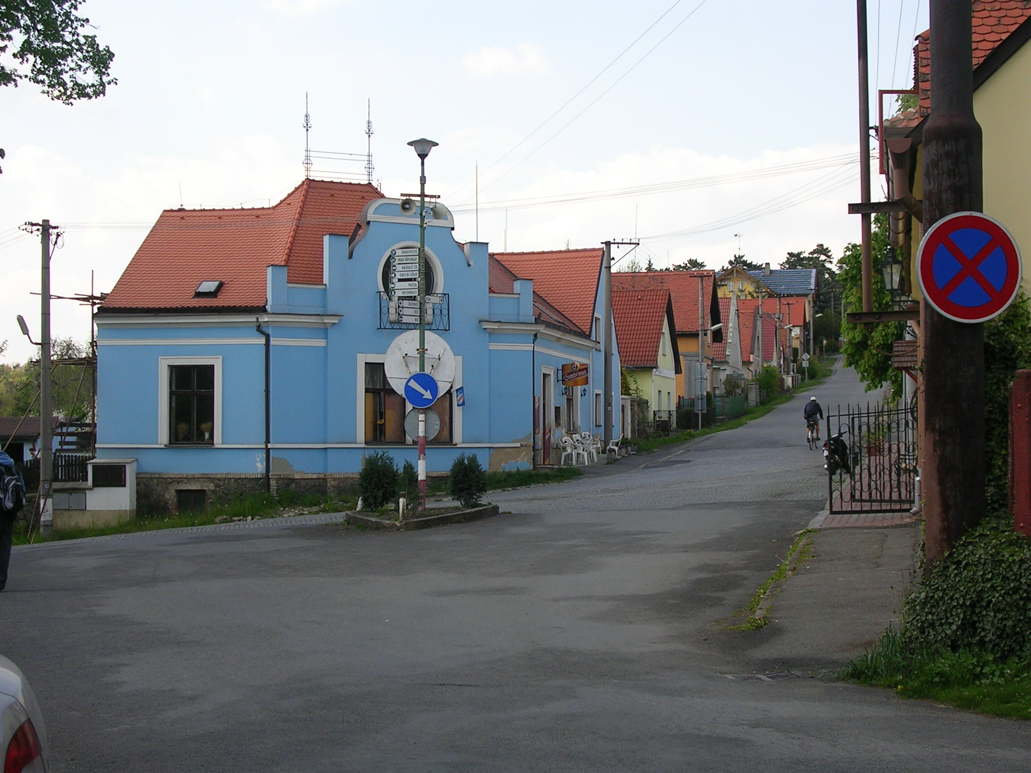 Křivoklát, the Czech Republic.